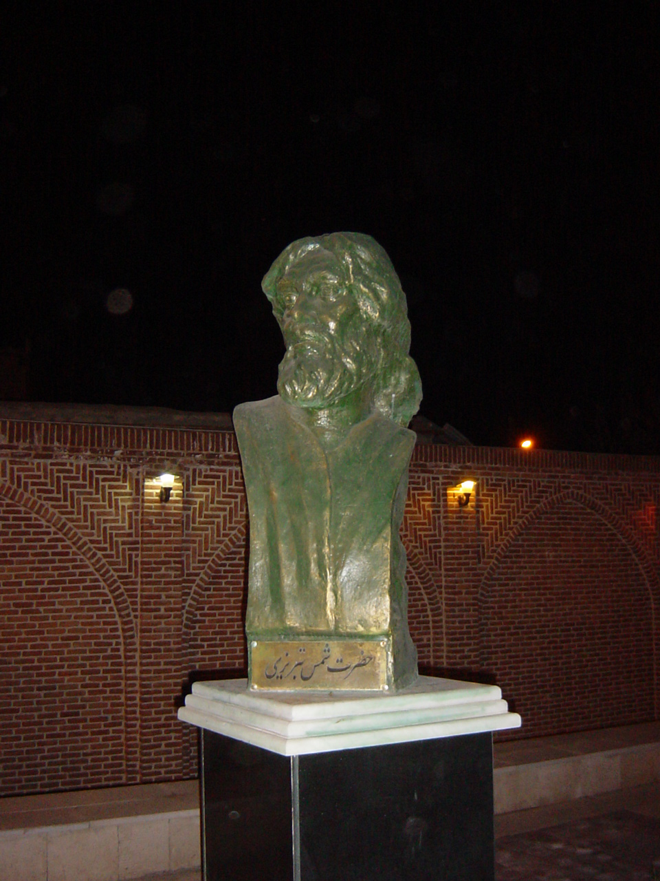 Khoy - Shams Tabrizi's tomb 5 - Information in page 1